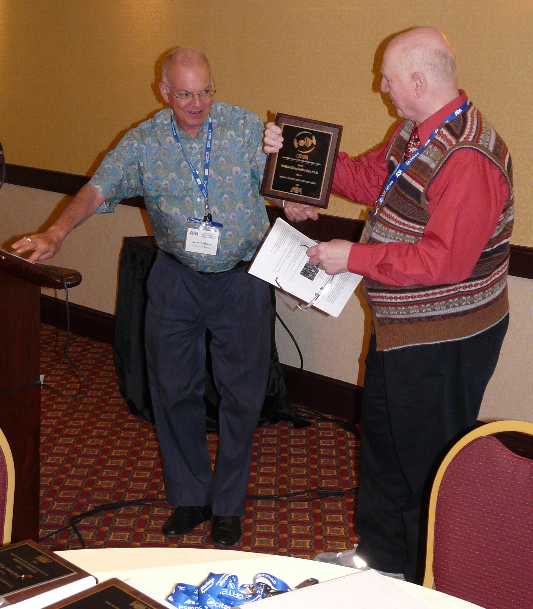 Boston. American Sociological Association conference. Barry Wellman (left) and William Sims Bainbridge (right). Award ceremony for William Sims Bainbridge held by the CITASA section of ASA.